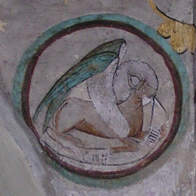 Luke the Evangelist in Överselö kyrka